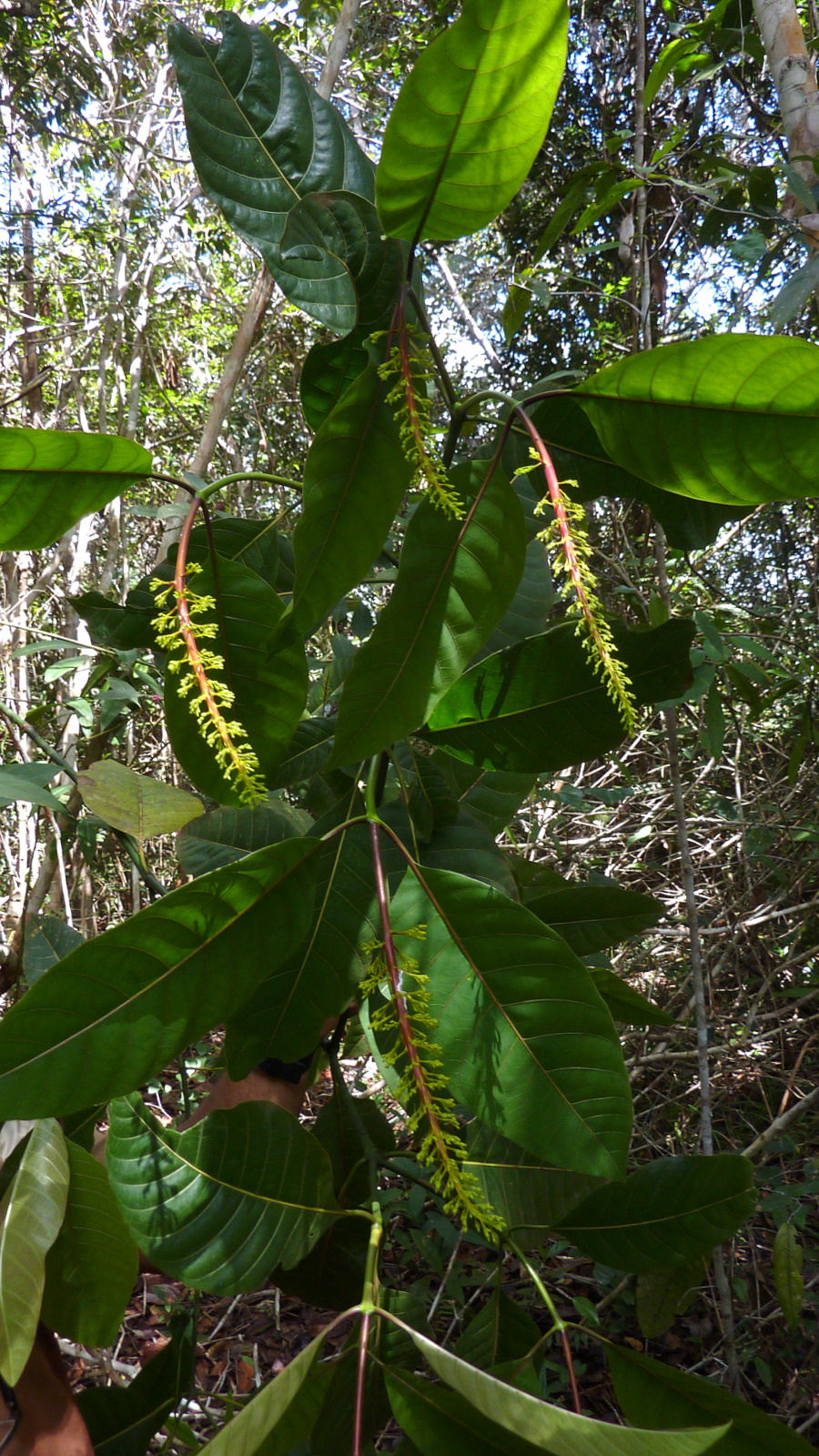 Palicourea blanchetiana Schltdl., Rubiaceae, Atlantic forest, northeastern Bahia, Brazil Shrub to 4 m. Popovkin & Mendes 712, 736 (HUEFS).